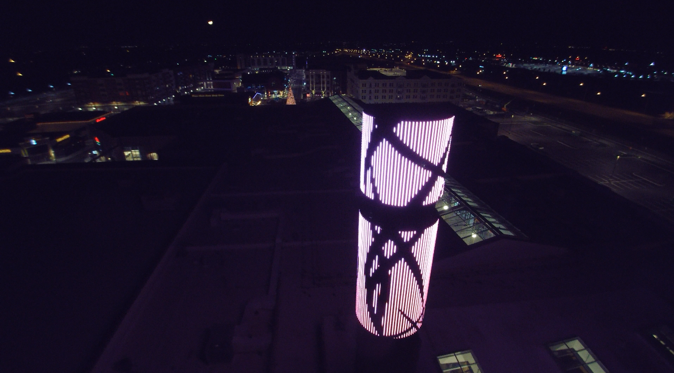 A 2015 project in a shopping mall, Cincinnati, Ohio